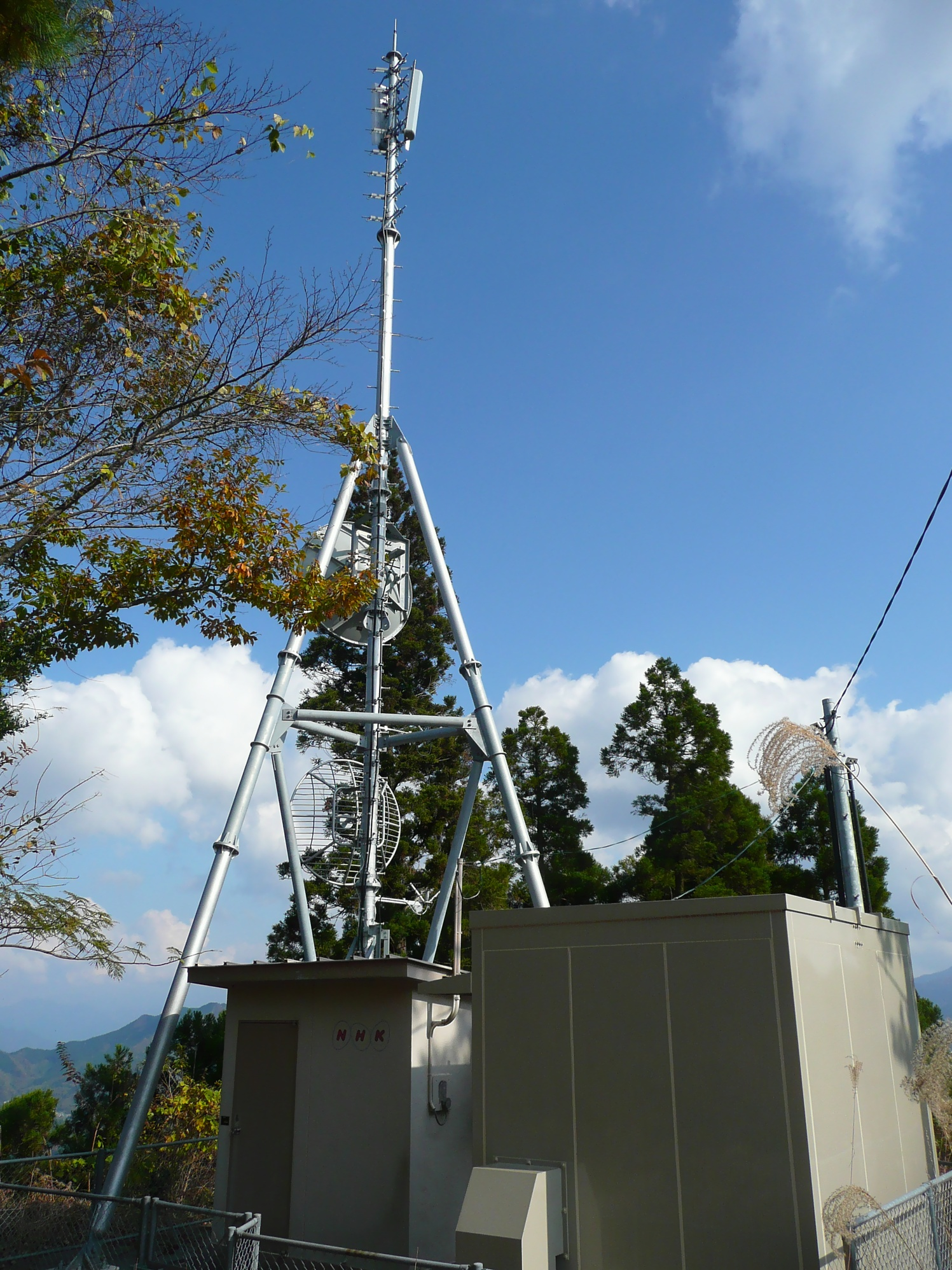 The Gokase Repeater (NHK Miyazaki) is located in Miyazaki Prefecture, Japan.